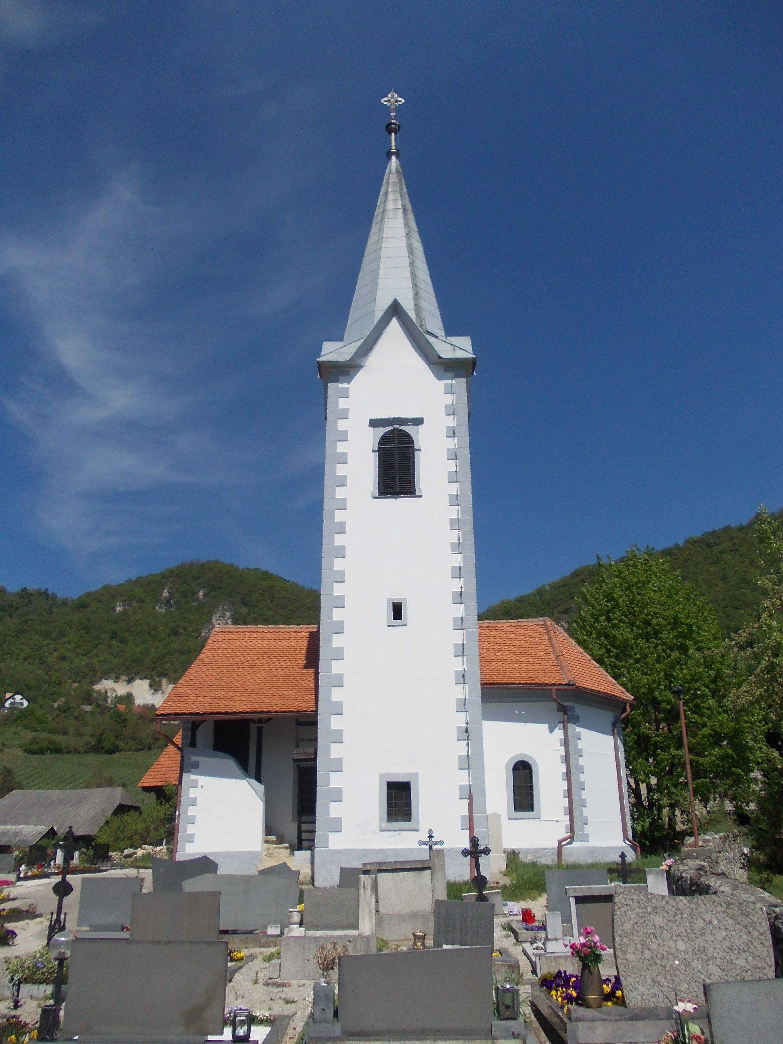 Mary Magdalene Church, Orešje na Bizeljskem